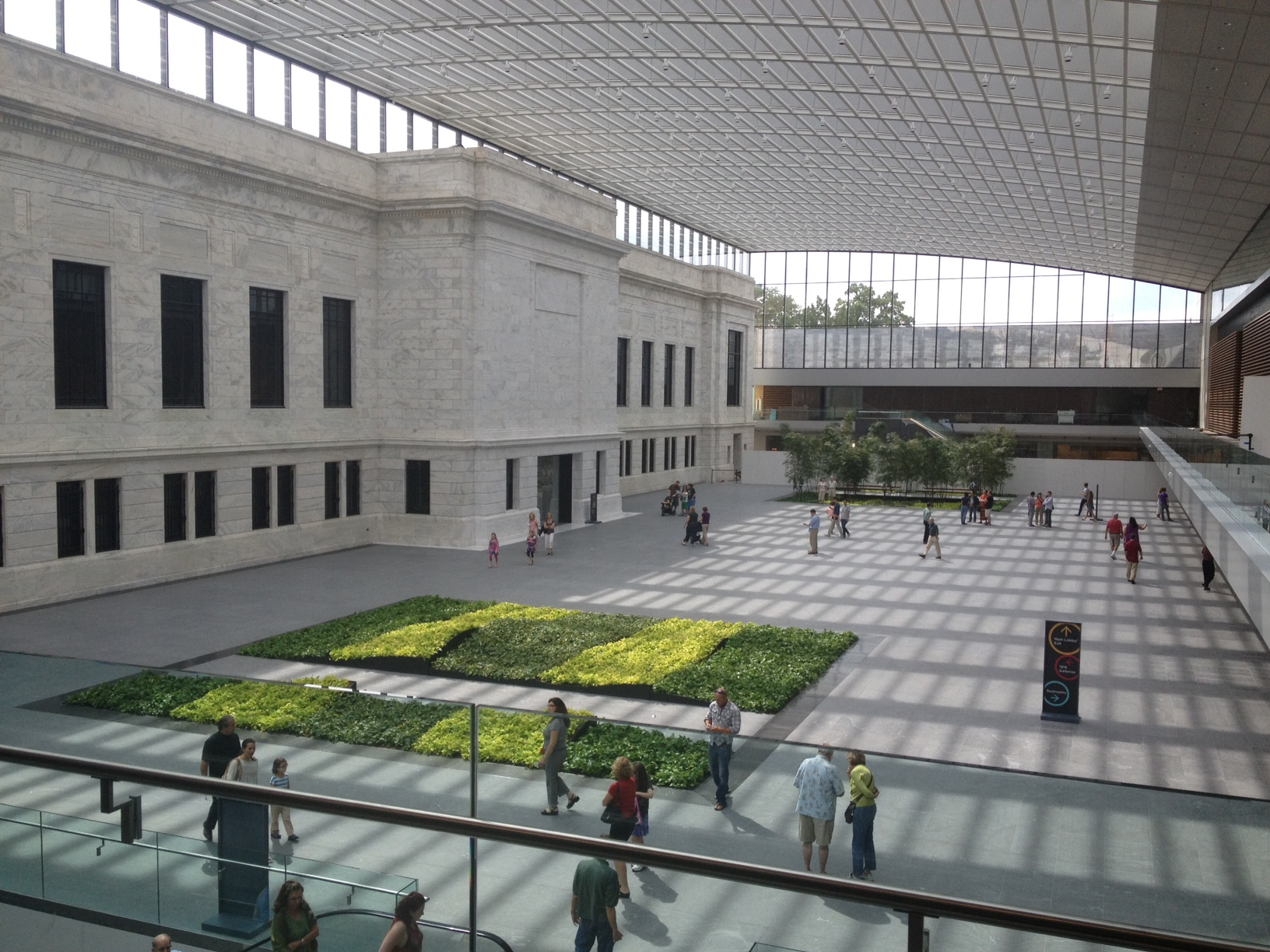 September 2, 2012 -- atrium expansion open at the Cleveland Museum of Art in University Circle.